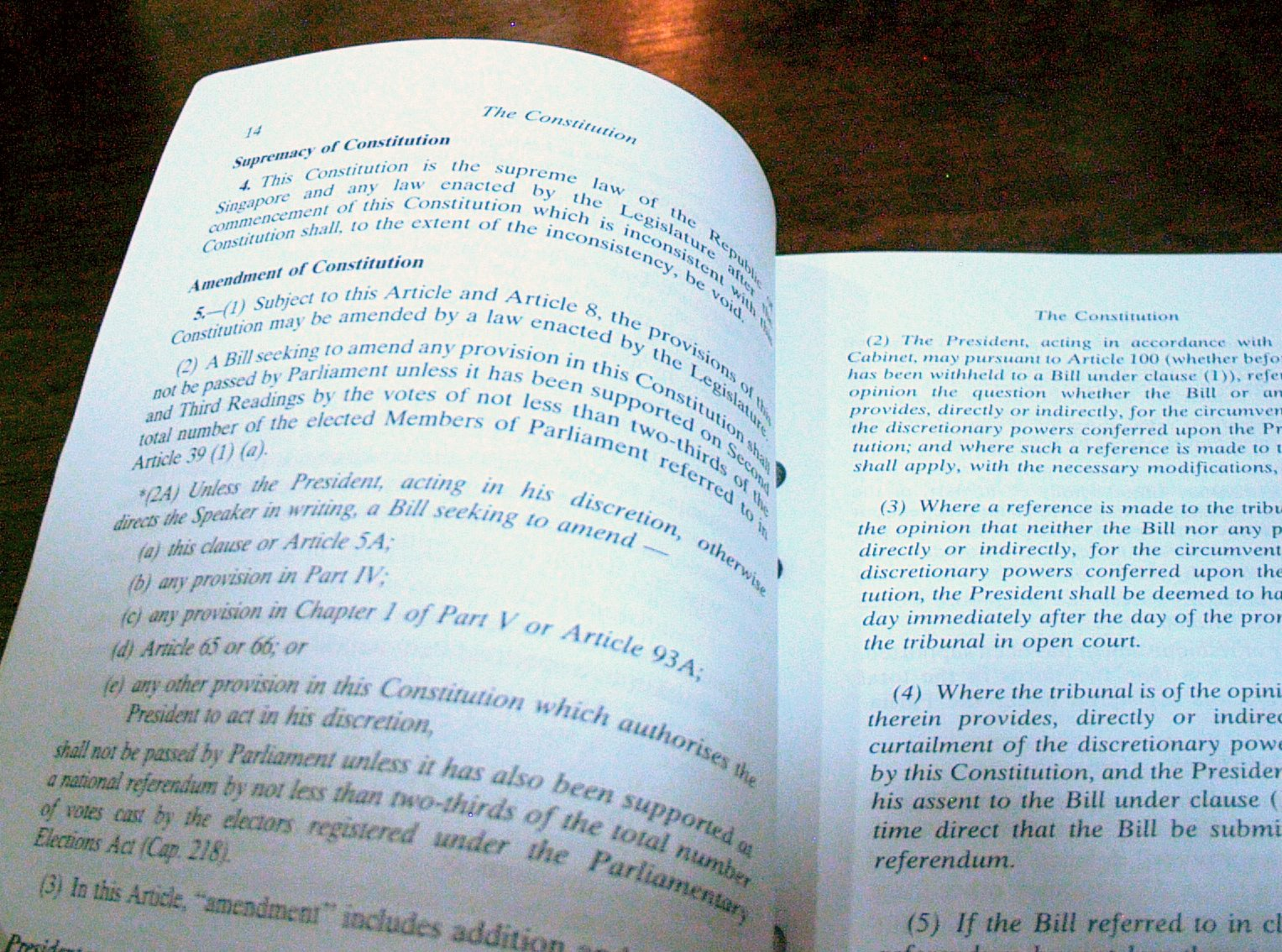 Article 4 of the 1999 Reprint of the Constitution of Singapore, also known as the supremacy clause, which states: "This Constitution is the supreme law of the Republic of Singapore and any law enacted by the Legislature after the commencement of this Constitution which is inconsistent with this Constitution shall, to the extent of the inconsistency, be void."